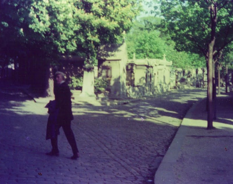 Ray Nelson